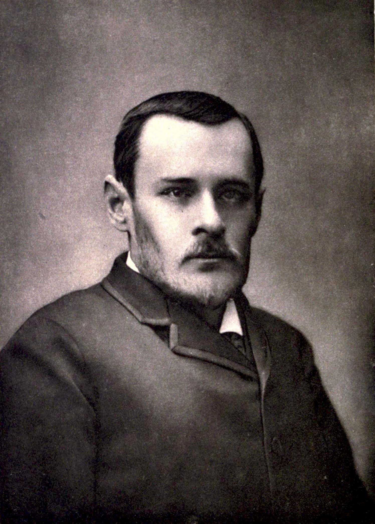 French writer Georges Ohnet